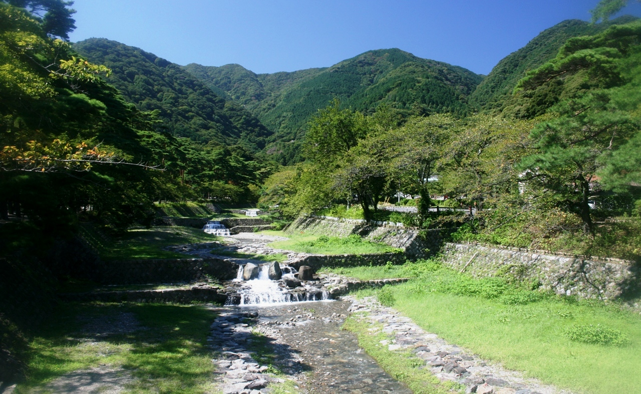 The downstream part of Yōrō Falls, Takidani in Yōrō Park